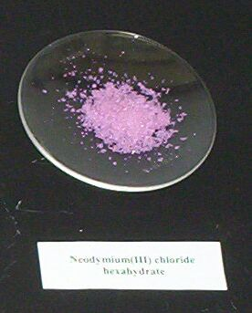 Neodymium chloride hexahydrate (fume cupboard light)